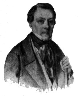 Fredrik Kinmanson